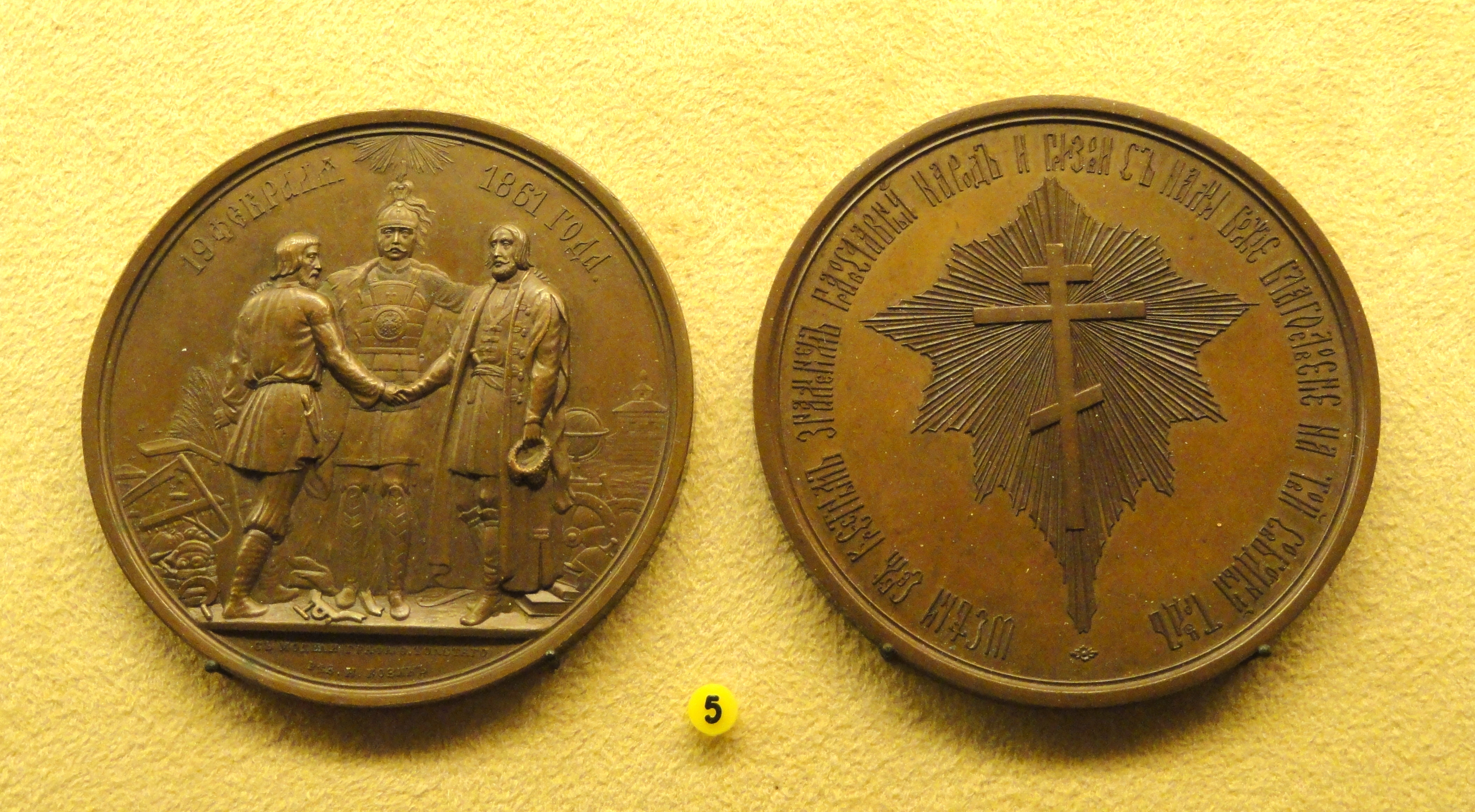 Coin / medal in the National Museum of Finland, Helsinki, Finland. This artwork is in the public domain because the artist(s) died more than 70 years ago.